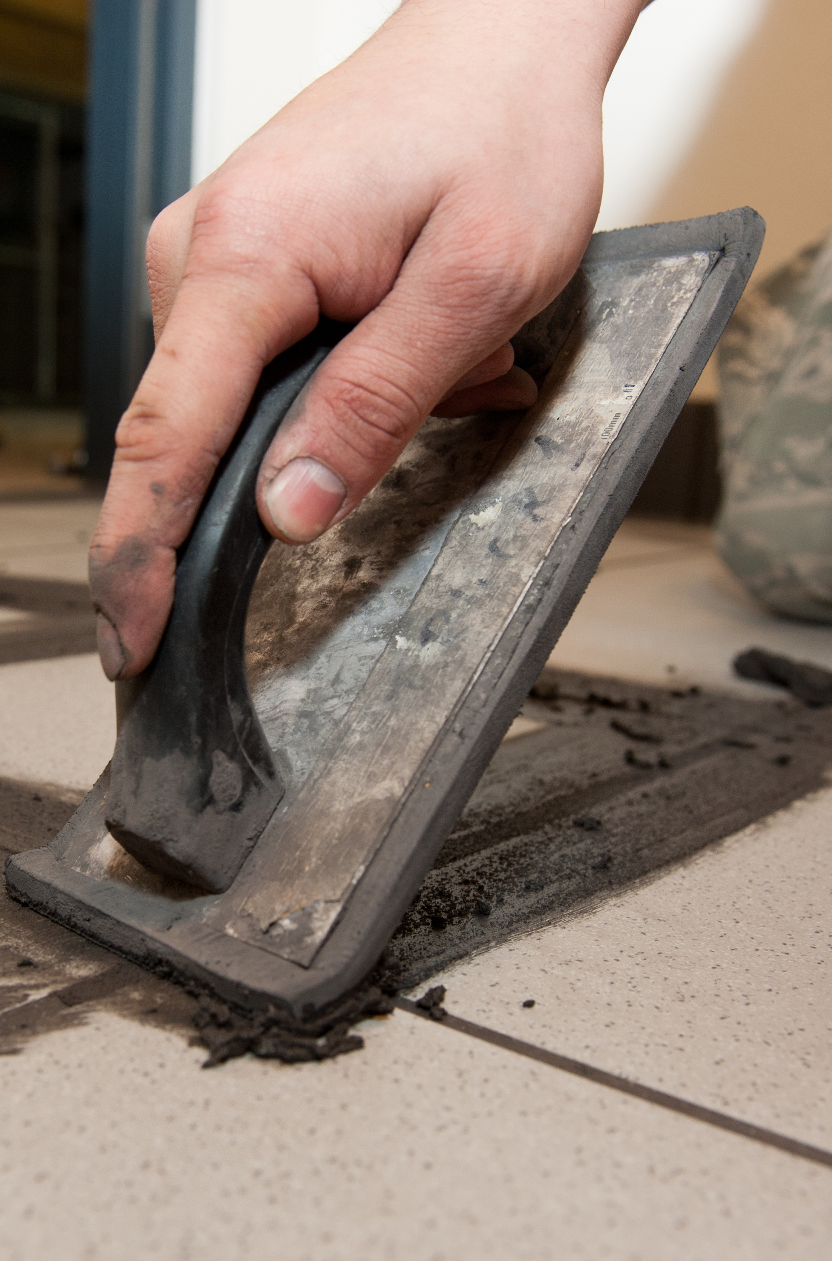 Senior Airman Omar Portillo, 28th Civil Engineer Squadron structural technician, applies grout to a bathroom tile floor in the 28th CES operations building on Ellsworth Air Force Base, S.D., Feb. 21, 2013. The grout must dry for 24 hours before the tile is cured to guarantee the floor is a flat, clean surface that will last years longer than the previous vinyl flooring.